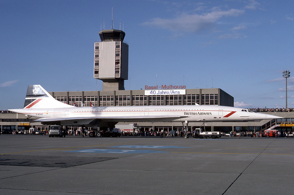 British Airways Concorde G-BOAC